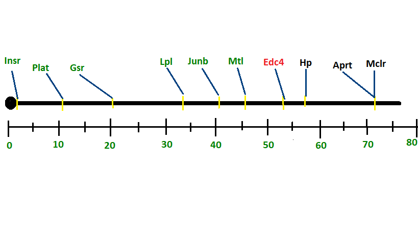 Cromosoma 8, 53,05 cm